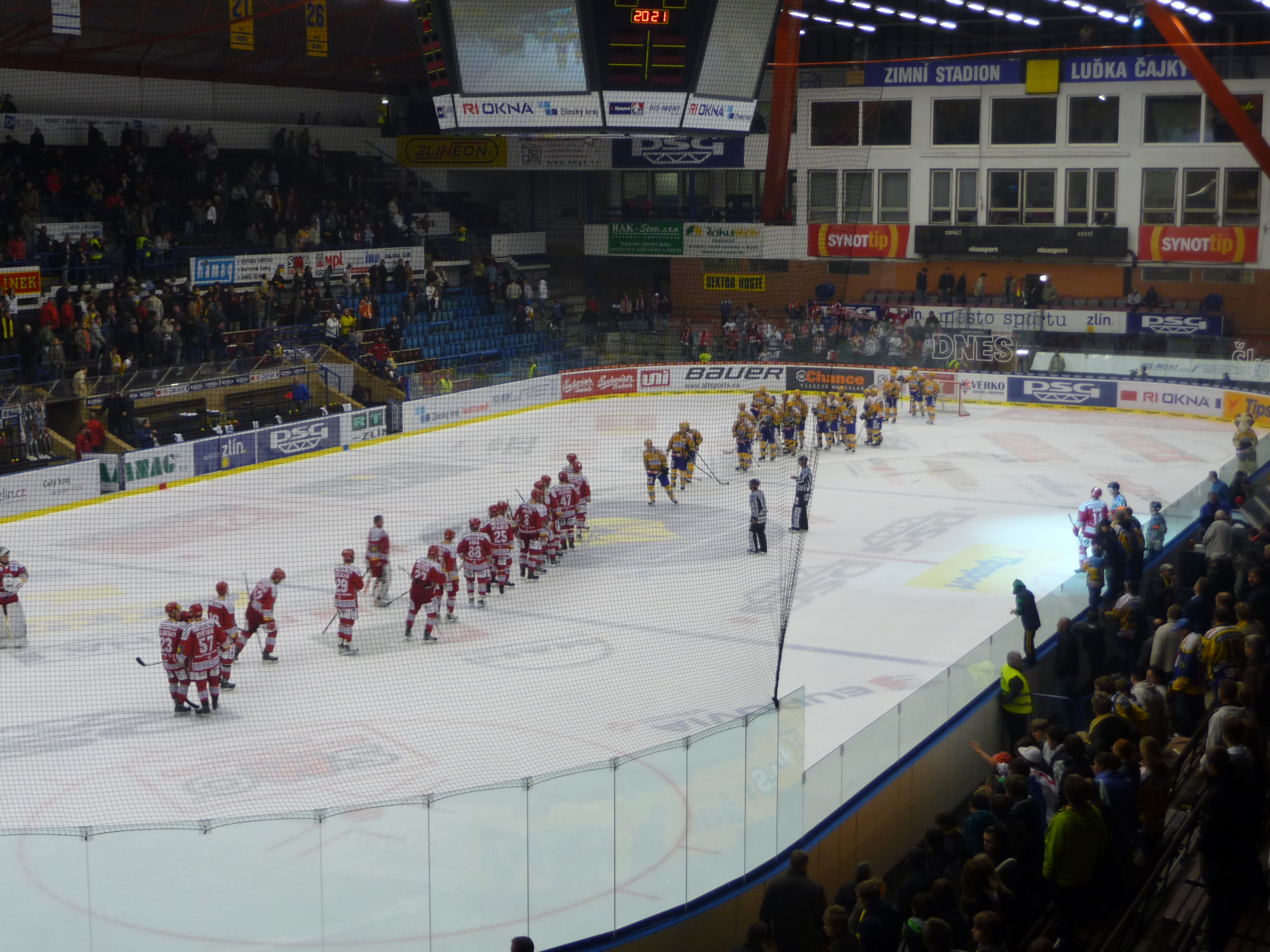 PSG Zlín v HC Oceláři Třinec -10 -5 -3 -2 ◄ ► +2 +3 +5 +10